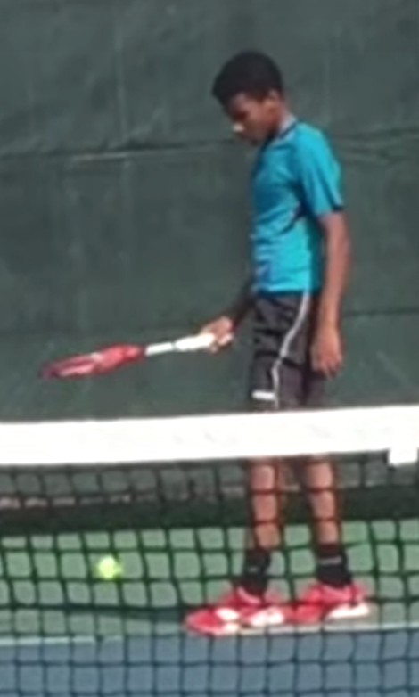 Felix Auger-Aliassime at International Hard Court Championships in College Park, Maryland.